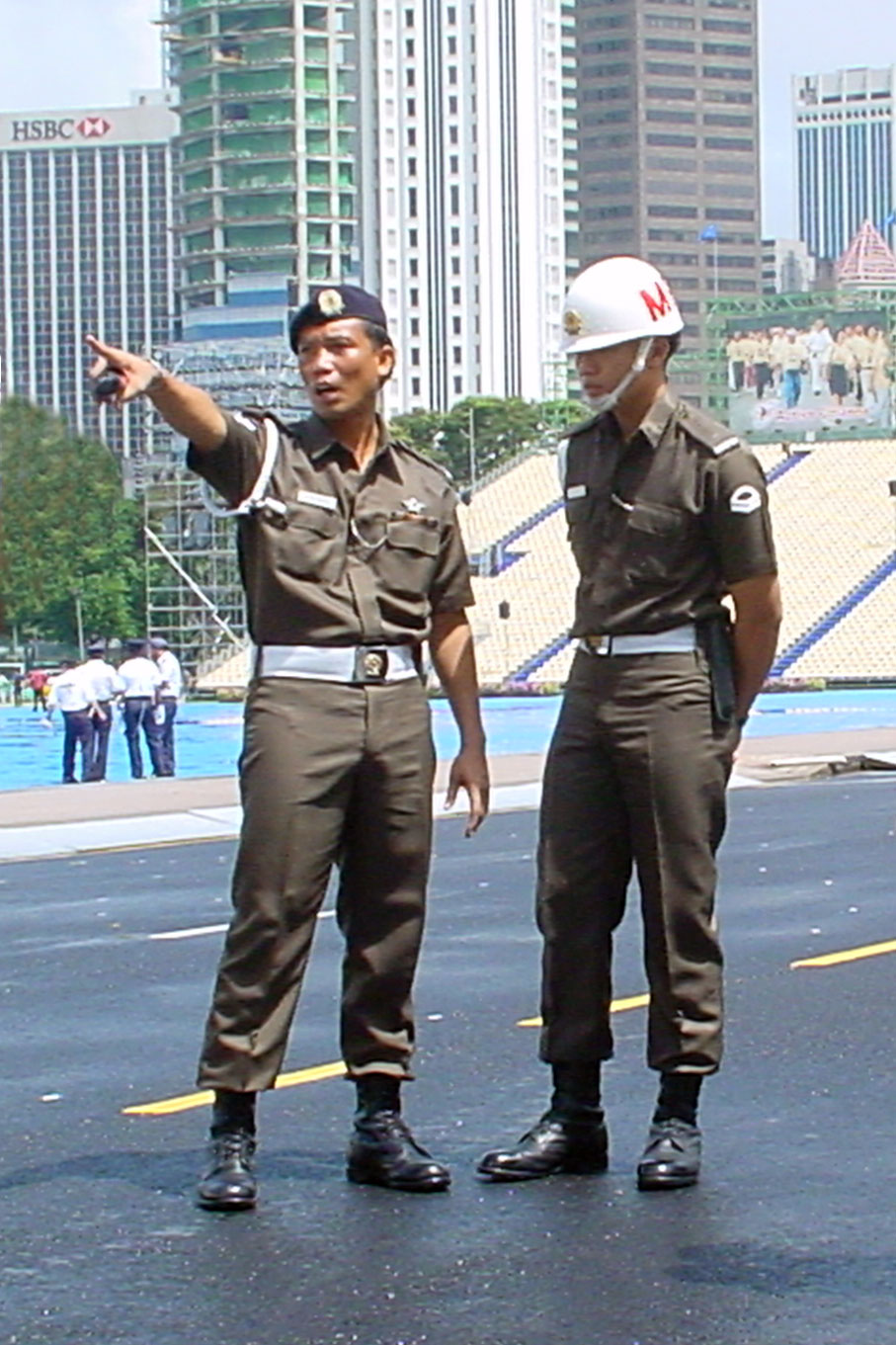 Singapore Armed Forces Provost Unit members providing security coverage at the National Day Parade 2000 rehearsals held at the Padang, Singapore